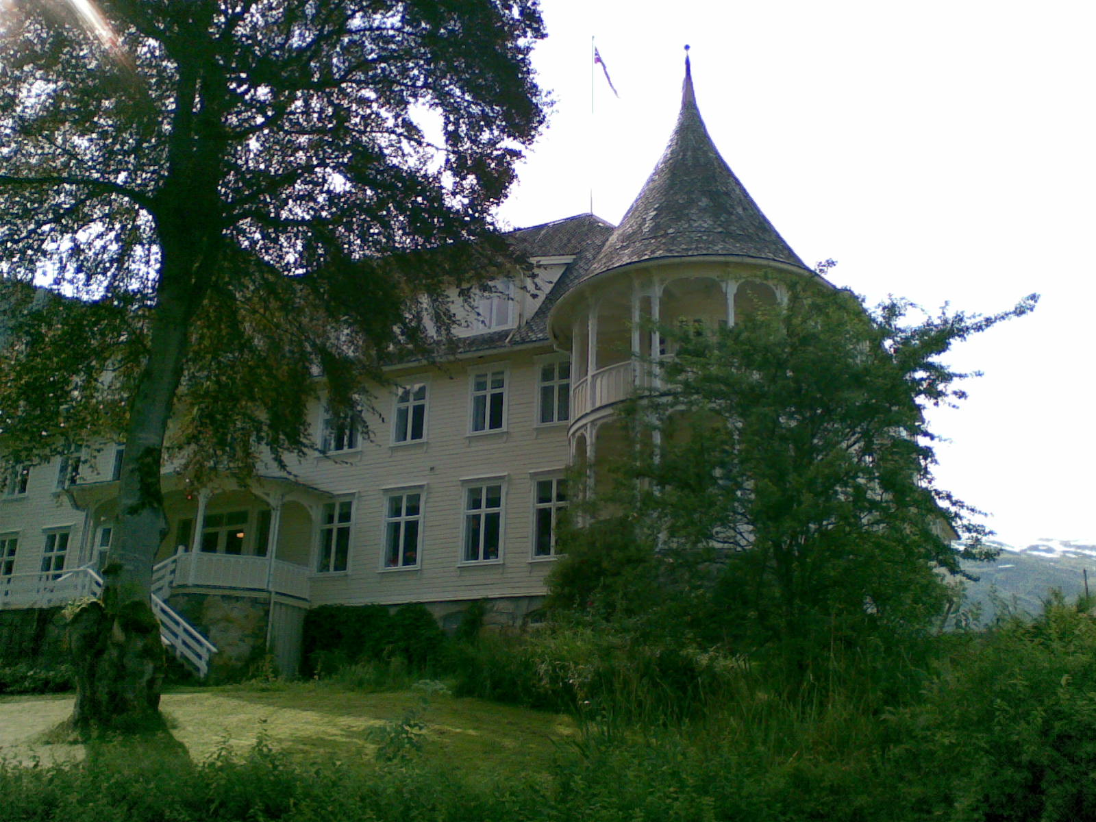 Hotel Mundal in Fjaerland, built in Swiss chalet style